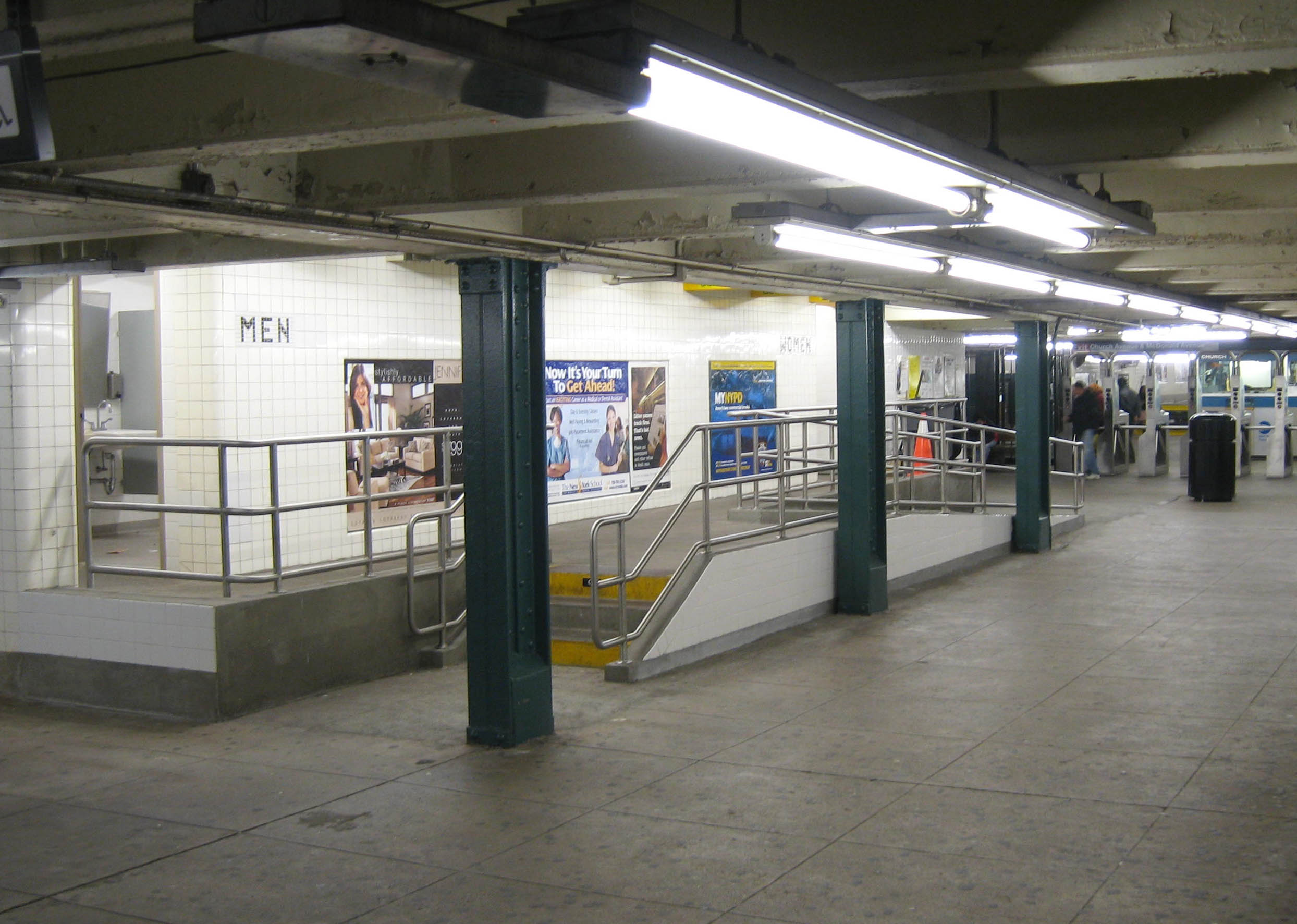 Looking south at toilets of Church Avenue IND station